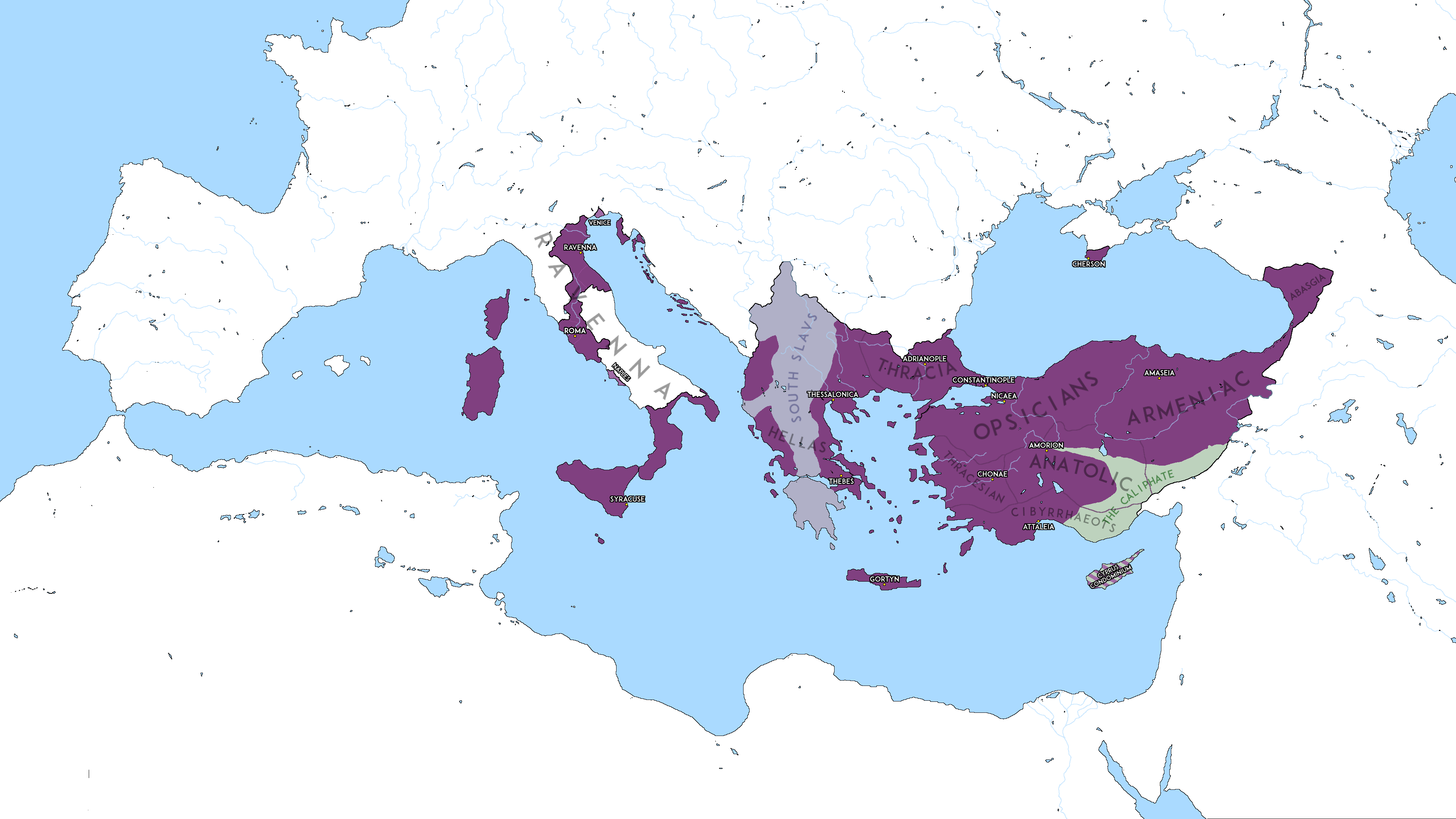 Map of The Eastern Roman Empire at the end of The Thirty Years Anarchy.